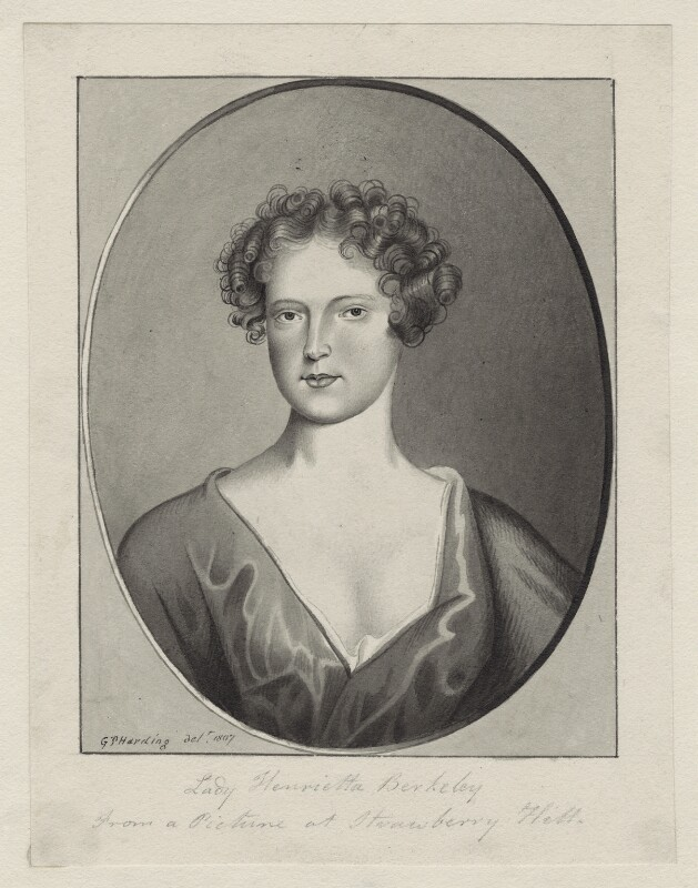 Portrait of Lady Henrietta Berkeley (born c. 1664, died 1706) made in 1807 by George Perfect Harding, possibly after Sir Godfrey Kneller, Bt / ink and wash, 1807 / 5 3/8 in. x 4 1/8 in. (135 mm x 104 mm) paper size / Given by the daughter of compiler William Fleming MD, Mary Elizabeth Stopford (née Fleming), 1931 to National Portrait Gallery, London / NPG D30999